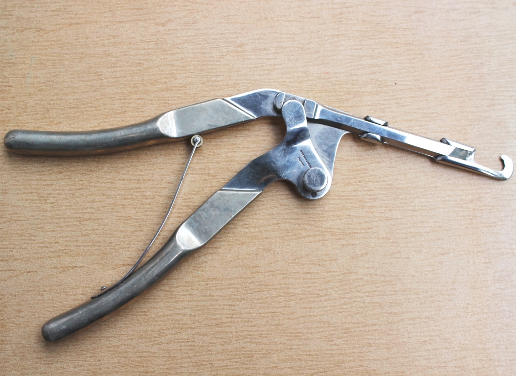 Sauerbruch-Frey Forceps for ribs